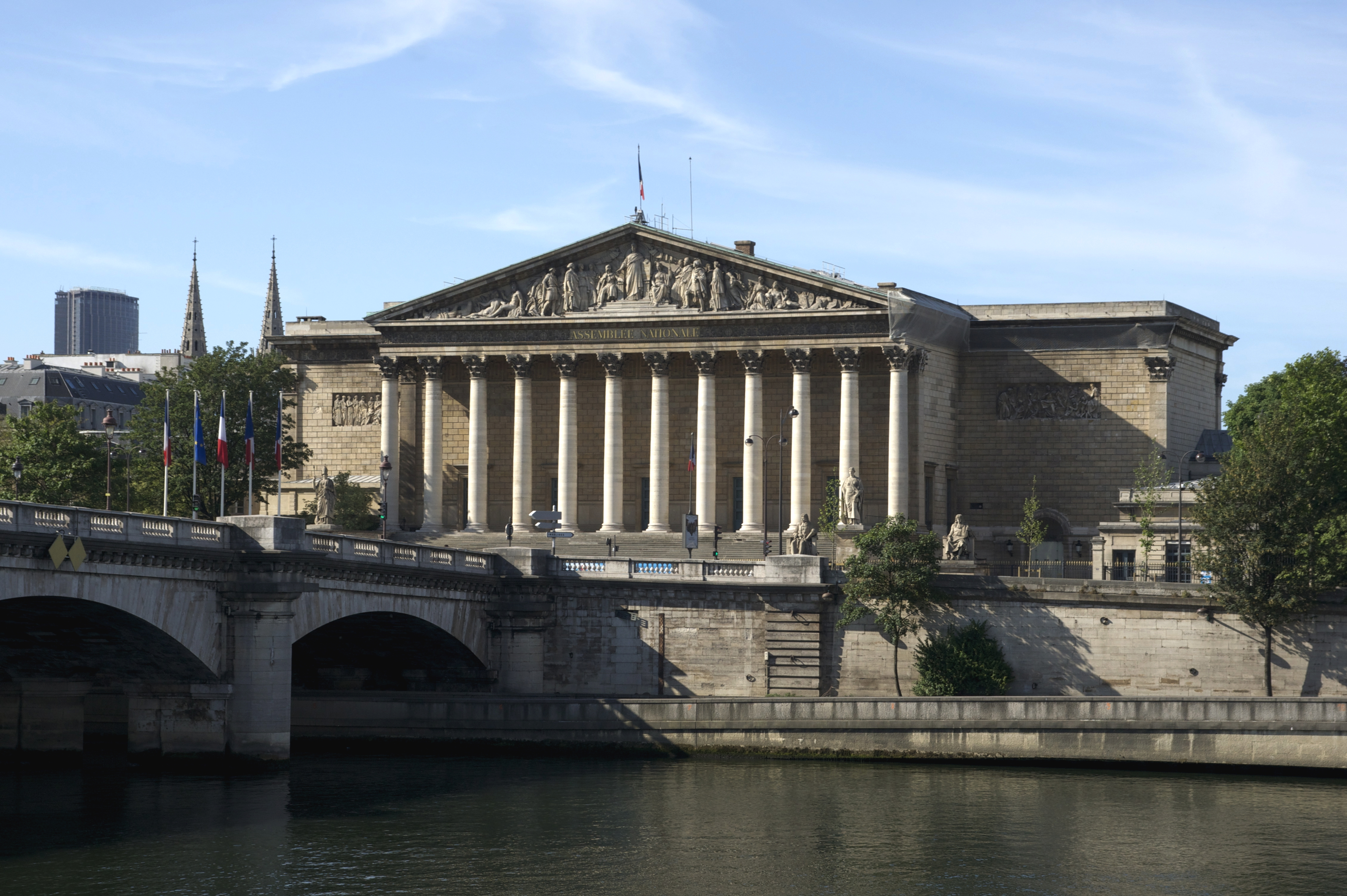 The french National Assembly, Palais-Bourbon, as seen from the opposite bank of the Seine.